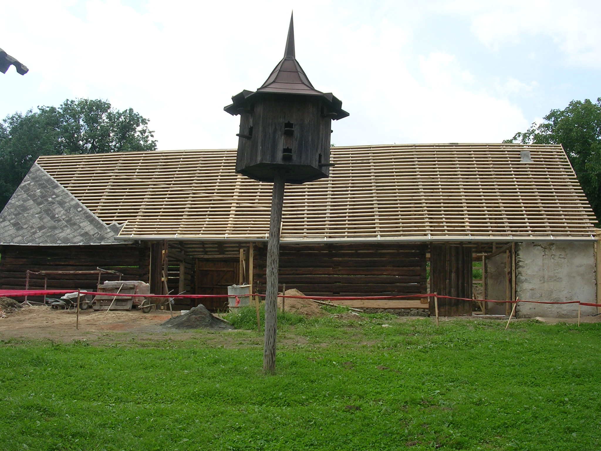 Vysoký Chlumec, Příbram District, Central Bohemian Region, the Czech Republic. Open air museum of village buildings.